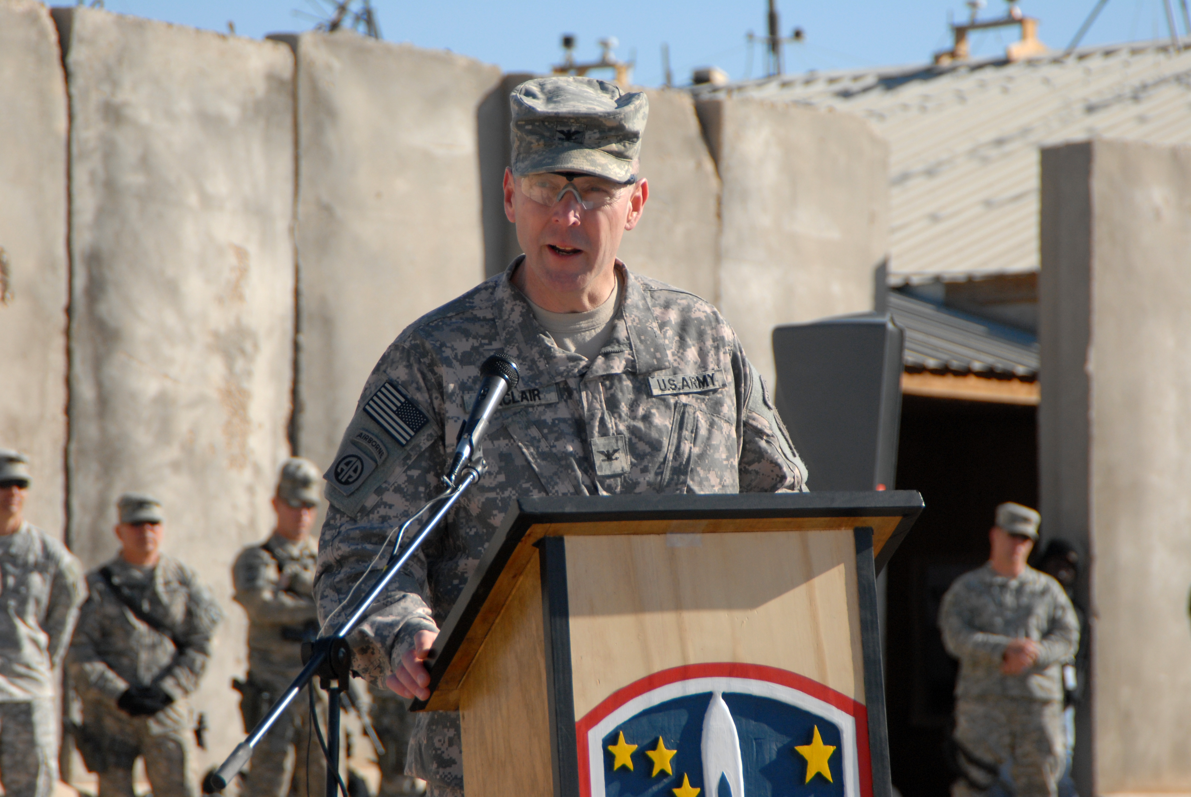 U.S. Army Col. Jeffrey Sinclair, commander of 172nd Infantry Brigade, gives remarks during the transfer of authority ceremony with the 4th Brigade Combat Team, 3rd Infantry Division, at Forward Operating Base Kalsu, Iraq.